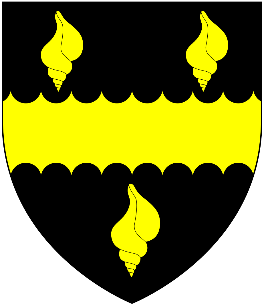 Arms of Shelley (Shelley baronets) of Michelgrove, Sussex, and of Shobrooke in Devon: Sable, a fesse engrailed between three whelks or (Debrett's Peerage, 1968, p.729)